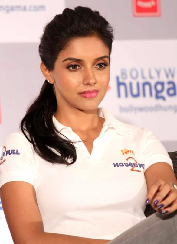 Asin at Housefull 2 stars launch limited edition stocks of BH's Game Of Fame